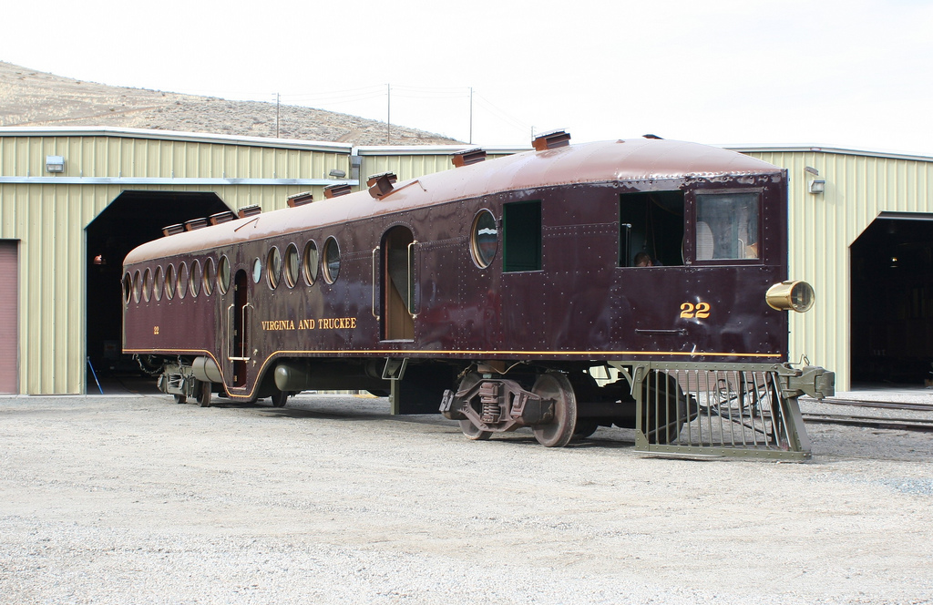 One of three surviving McKeen Motor Cars is rolled out of the shops of the Nevada State Railroad Museum in Carson City, Nevada. This car is undergoing a full restoration to bring it back to operating condition. The exterior is almost finished, but they still need to install the engine.